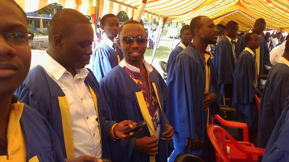 CHOIR